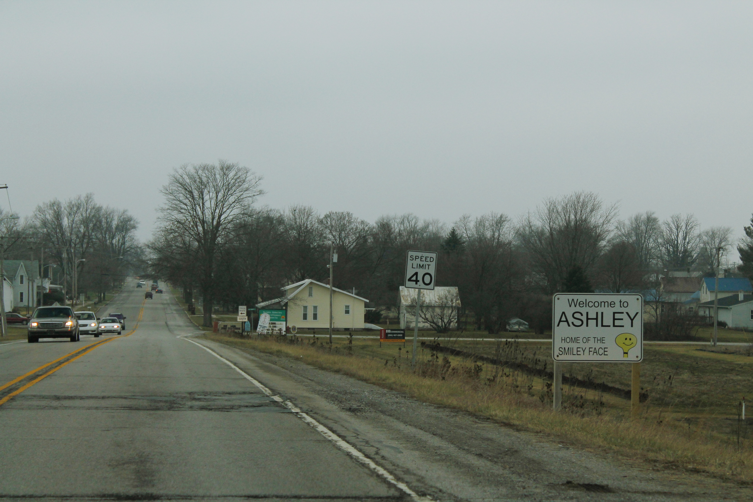 US6 West - Ashley, Indiana